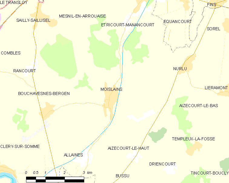 Map of French municipality Moislains